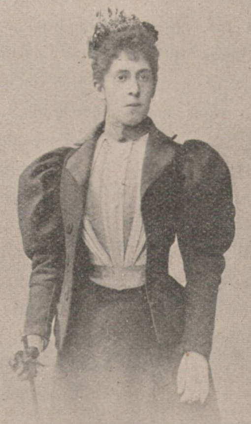 Photograph of the Swedish baroness Helga Fägerskiöld (1871-1958). Published in the newspaper Trollhättans Tidning 1898-12-20 (101B), p. 2.